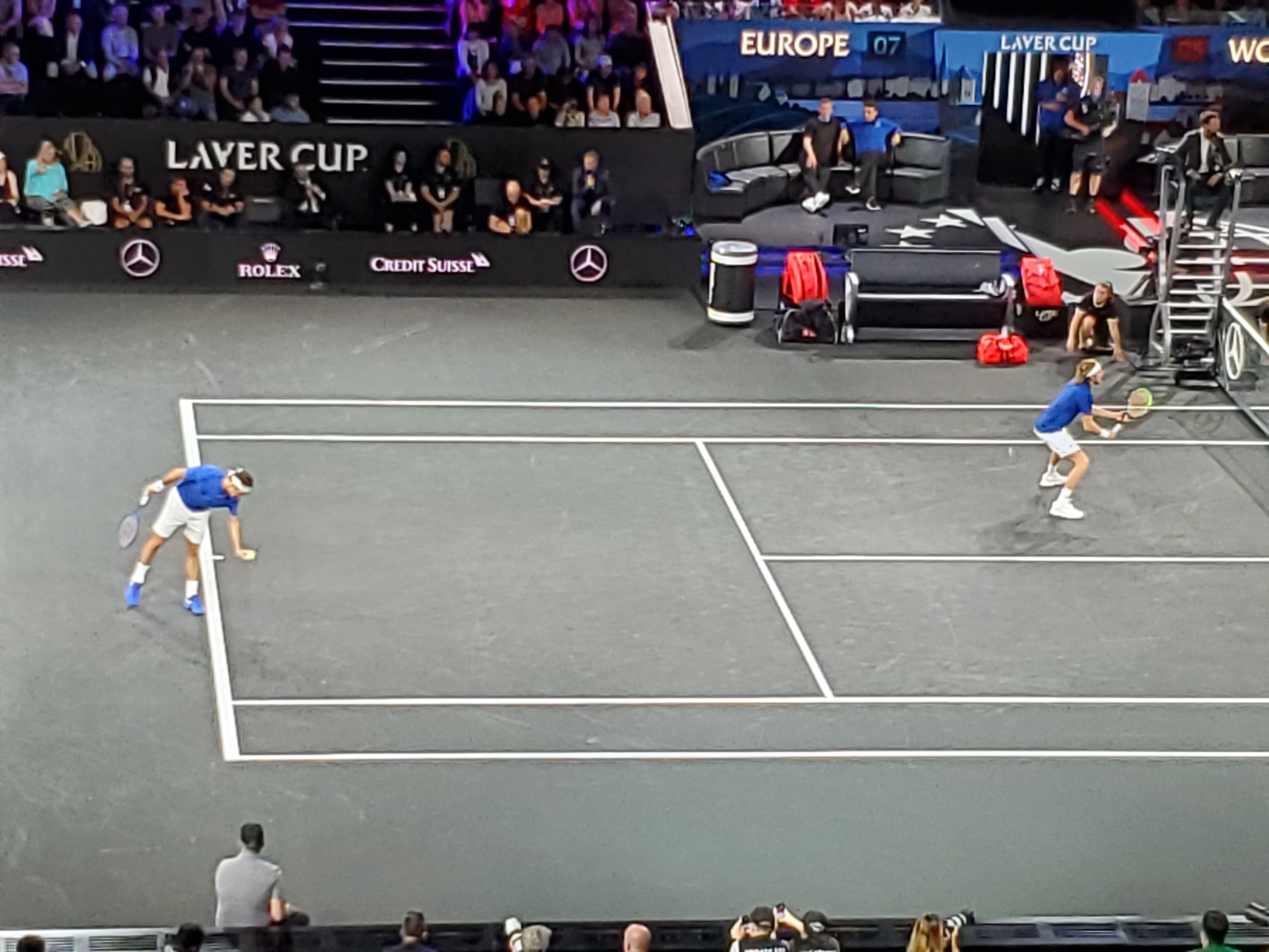 Laver Cup Federer and Tsitsipas doubles